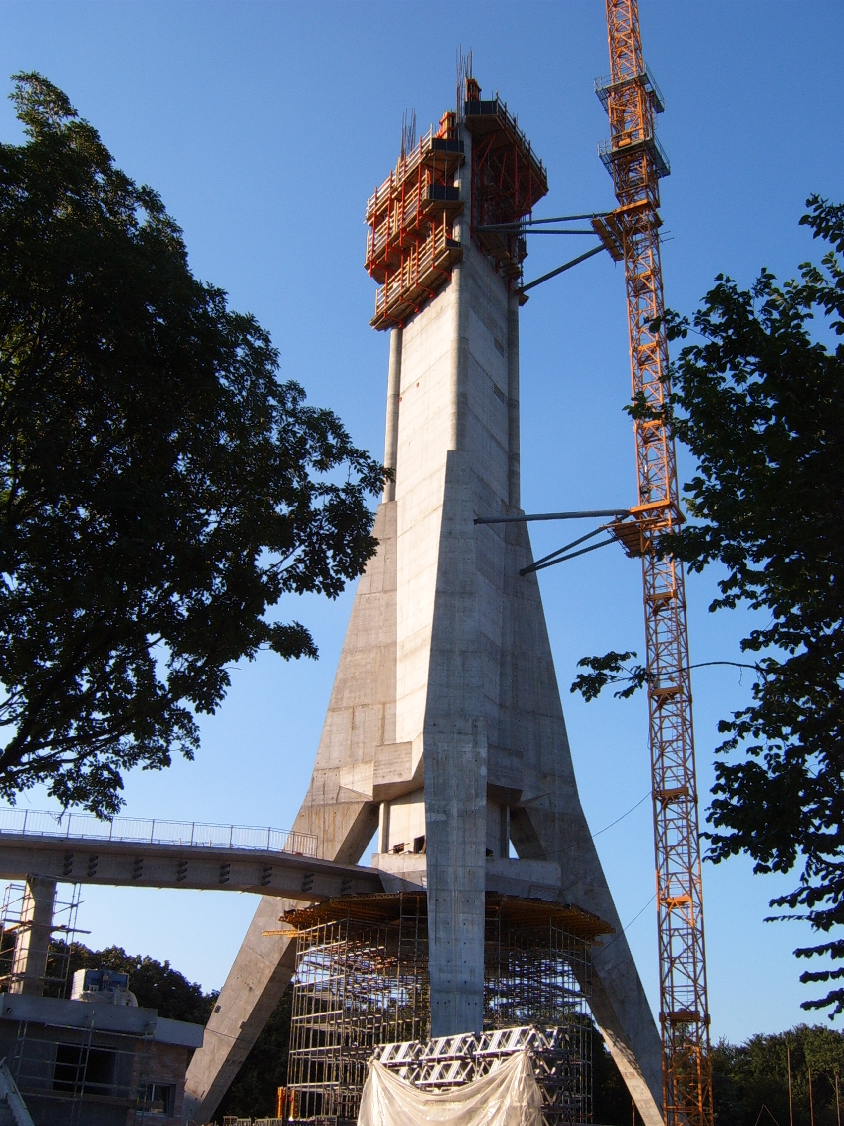 Reconstruction of Avala tower destroyed during NATO bombing near Belgrade, Serbia (taken on July the 19th 2008).